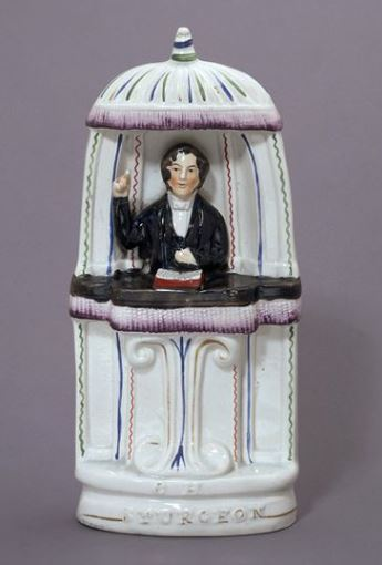 Staffordshire figure depicting the charismatic Baptist preacher, Charles Spurgeon, circa 1860.